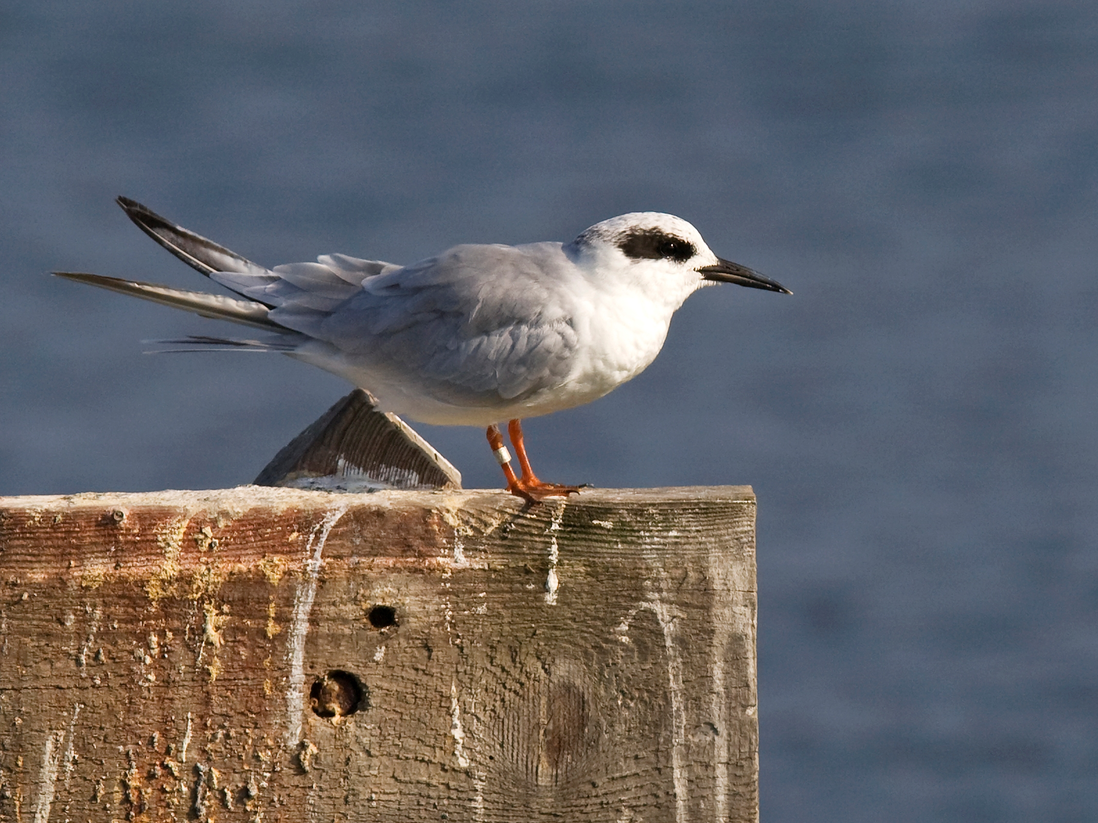 Forster's Tern (Sterna forsteri) on a sign post at Bolsa Chica Conservancy in Huntington Beach, California.